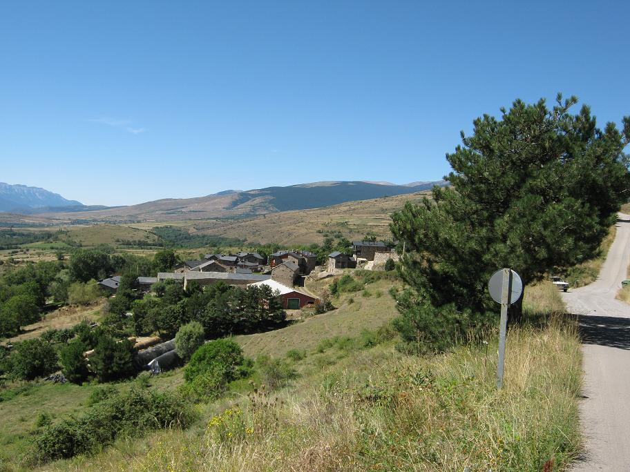 Sideview of Cereja